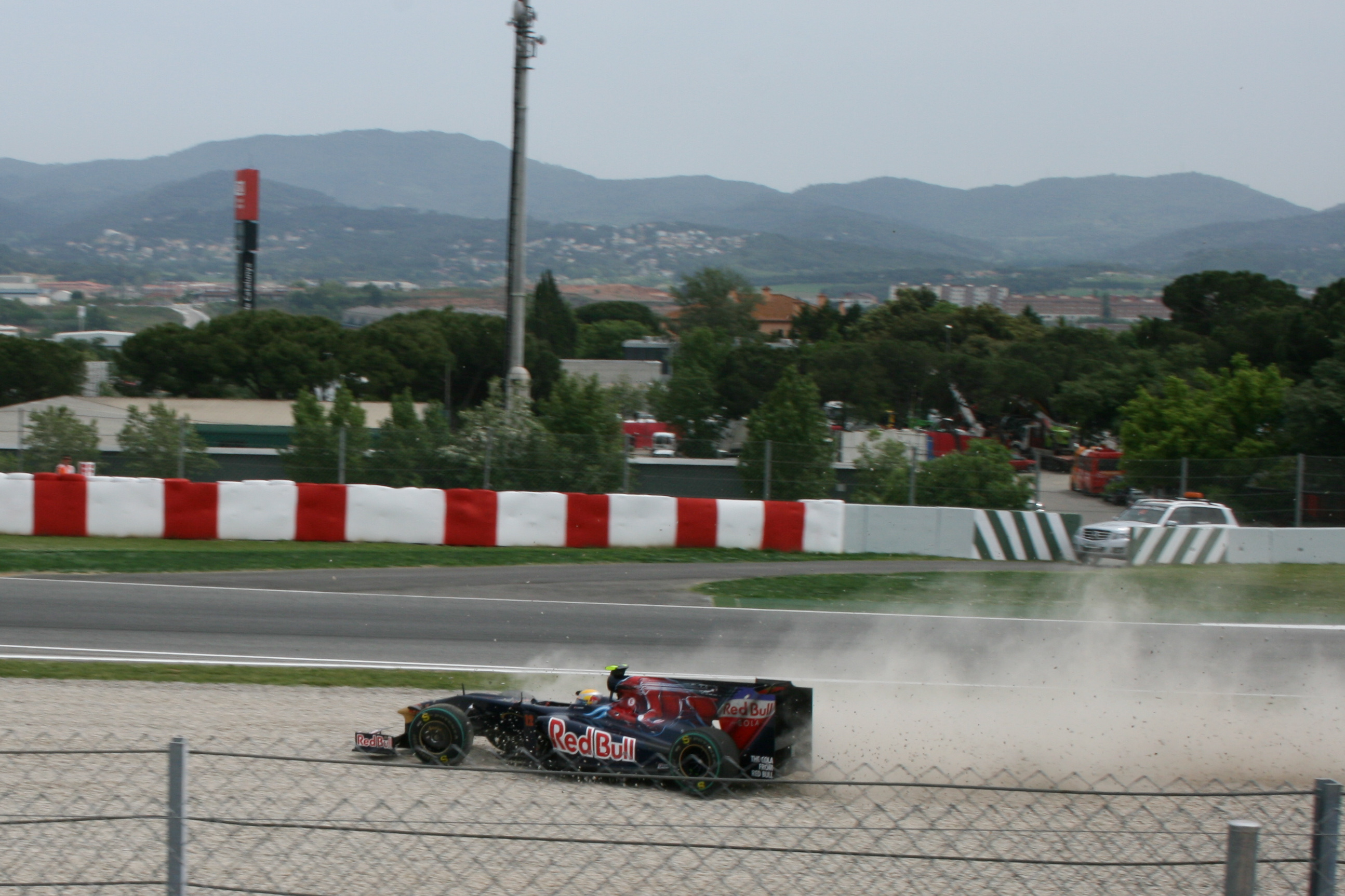 Toro.Rosso.Spain.09